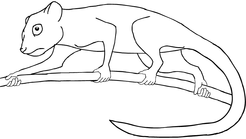 Description: Picture made by mateus zica in October 2005 Mateus Zica Wikipedia User Page is: This image is free to use in anywhere. If you gonna use it ,just send me a email telling me where its gonna be used.Thanks. Source: Mateus Zica